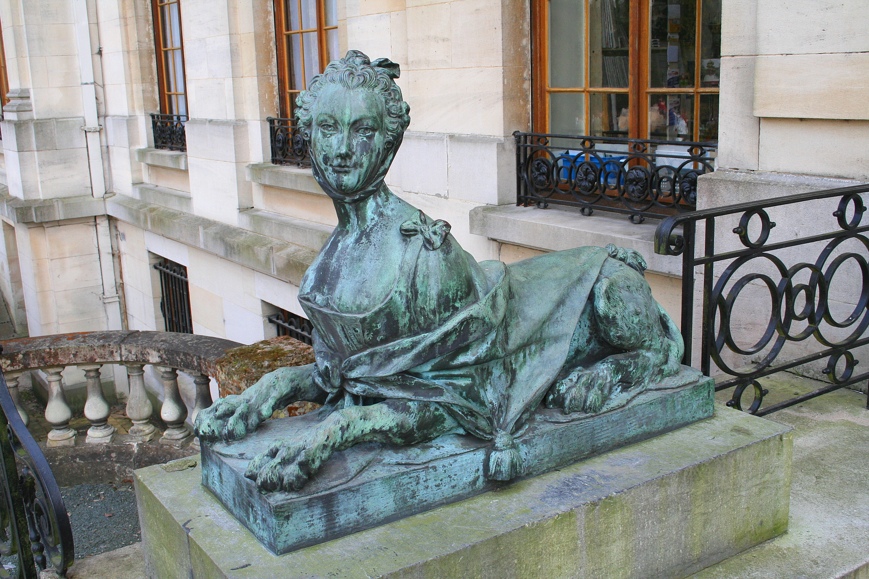 Enghien (Belgium), left Greek sphinx on the northern perron of the « Empain » castle.